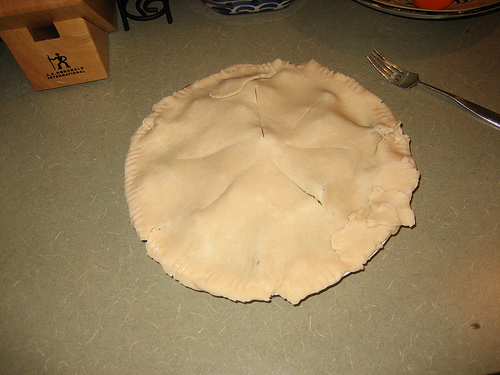 A homemade meat pie ready to cook